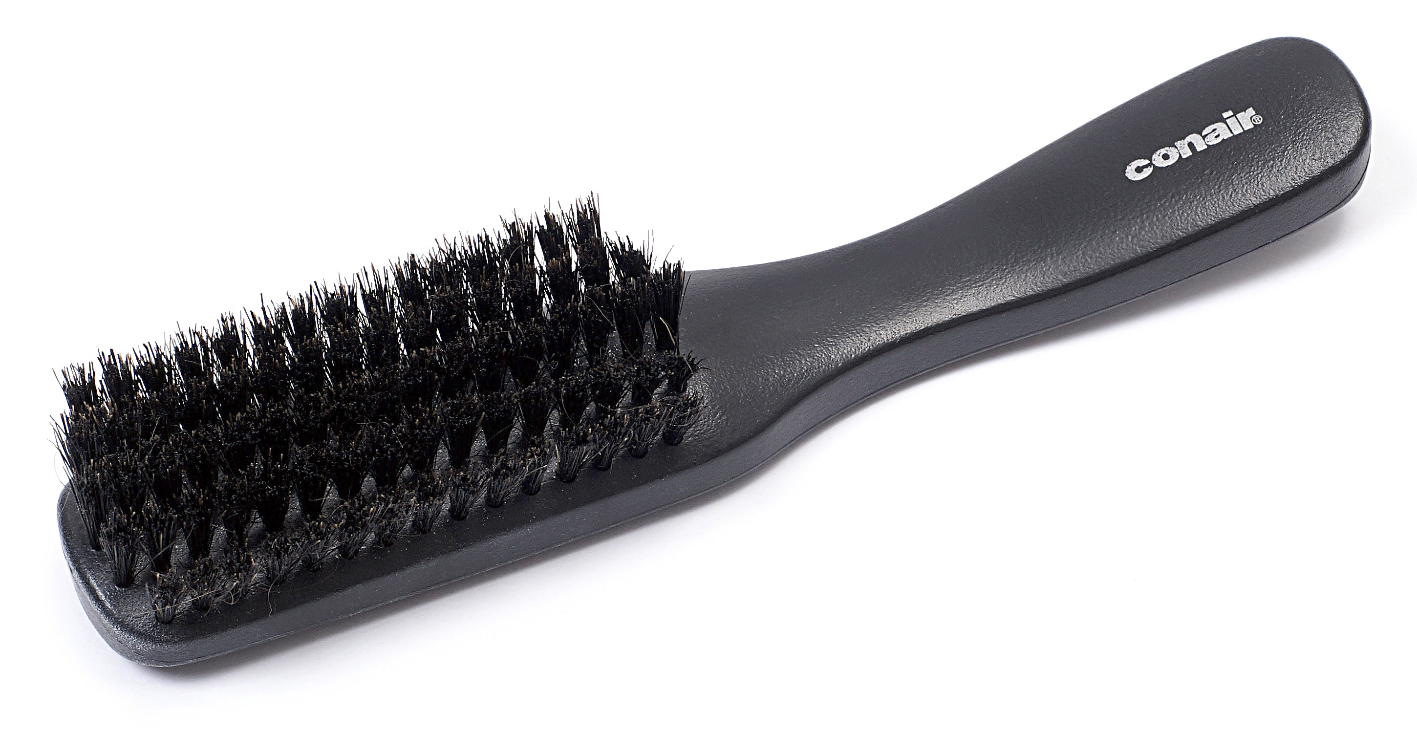 A Conair hairbrush